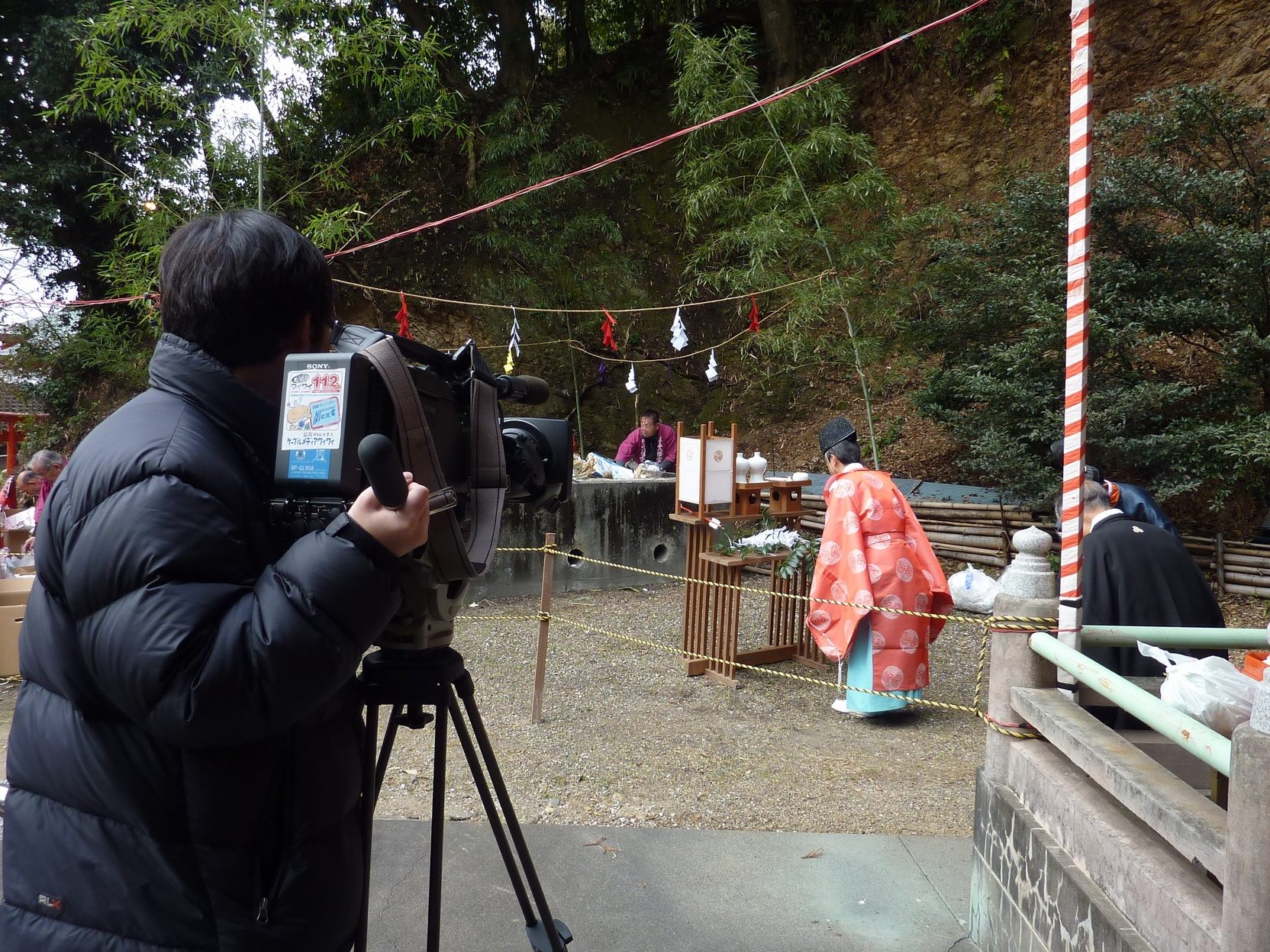 The Location of Cable Media Waiwai (Nobeoka City, Miyazaki Prefecture, Japan)